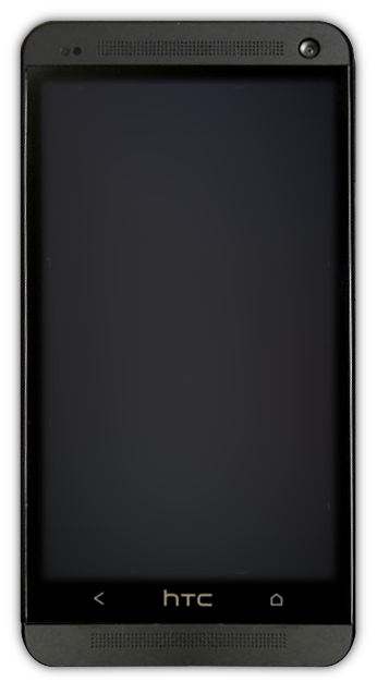 HTC One in black